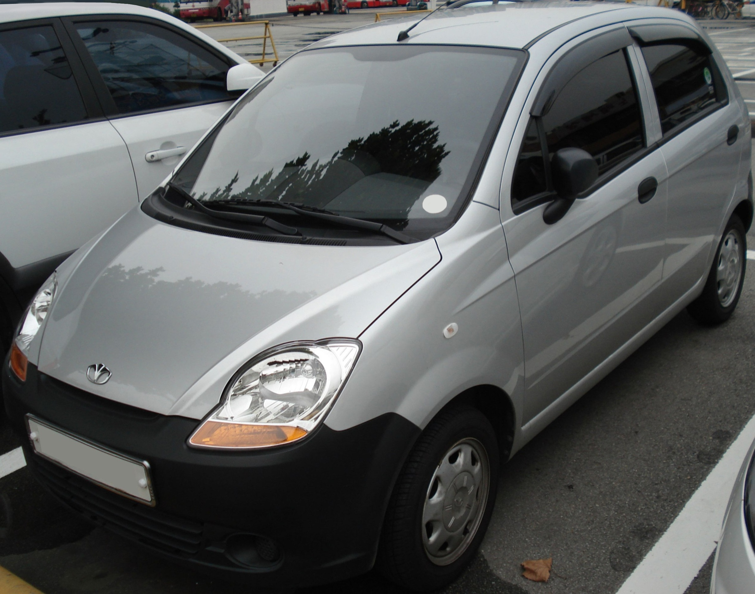 Daewoo Matiz Classic